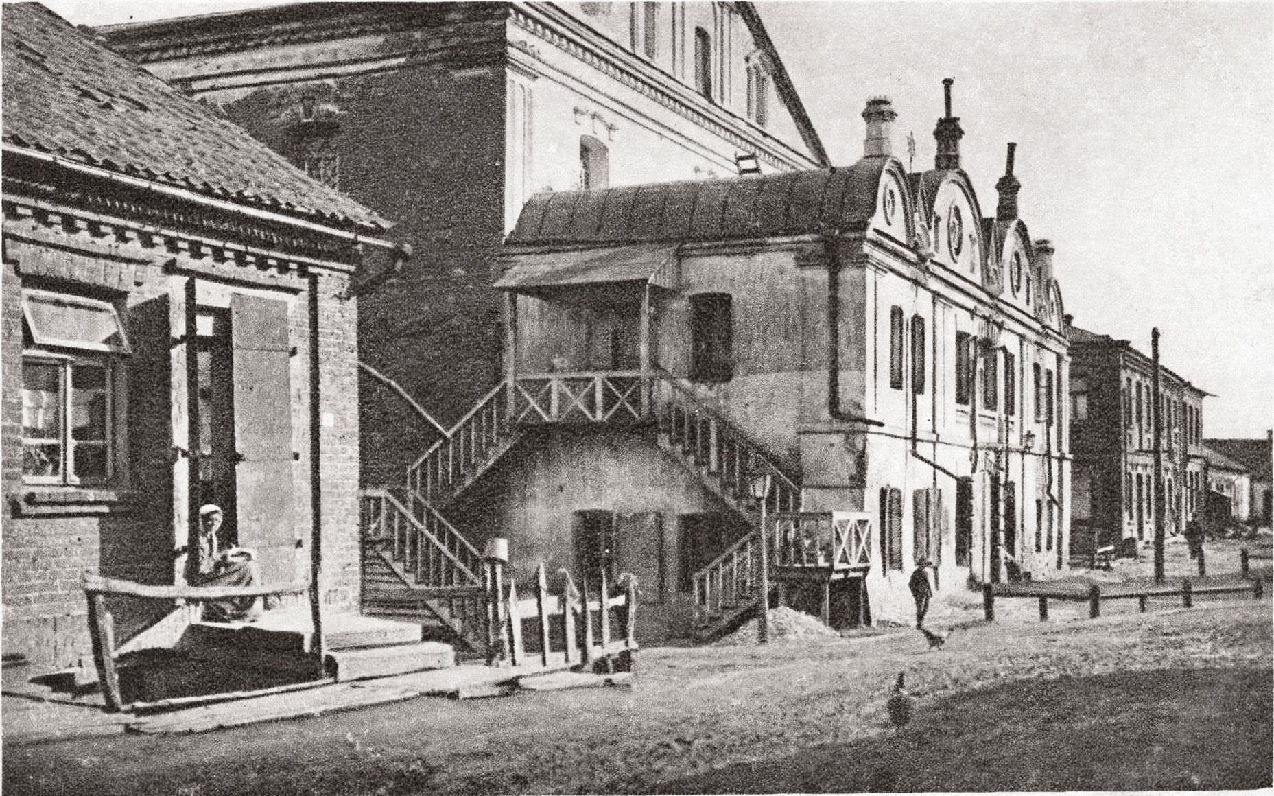 The Great Synagogue in Volodymyr-Volynskyi, was destroyed by Soviet power after WWII